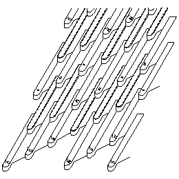 "Generalized key-board" designed by R. Bosanquet, 1874. Orthographic drawing by Clark Panaccione Jan. 6, 2006 See: File:Stonebos.gif